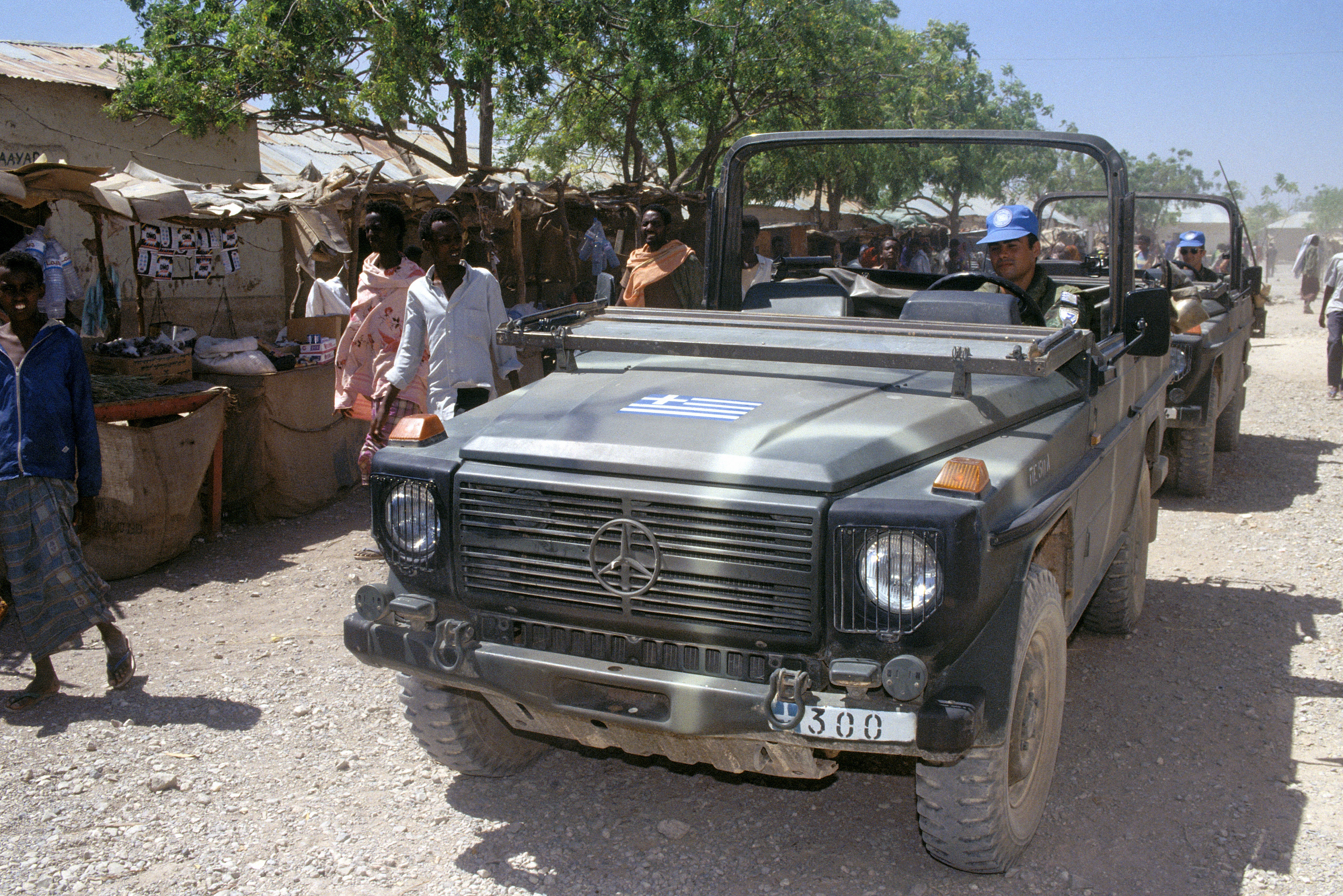 Soldiers from the Hellenic Army (Greece) convoy through the streets. The Greek contingent operates a field hospital.